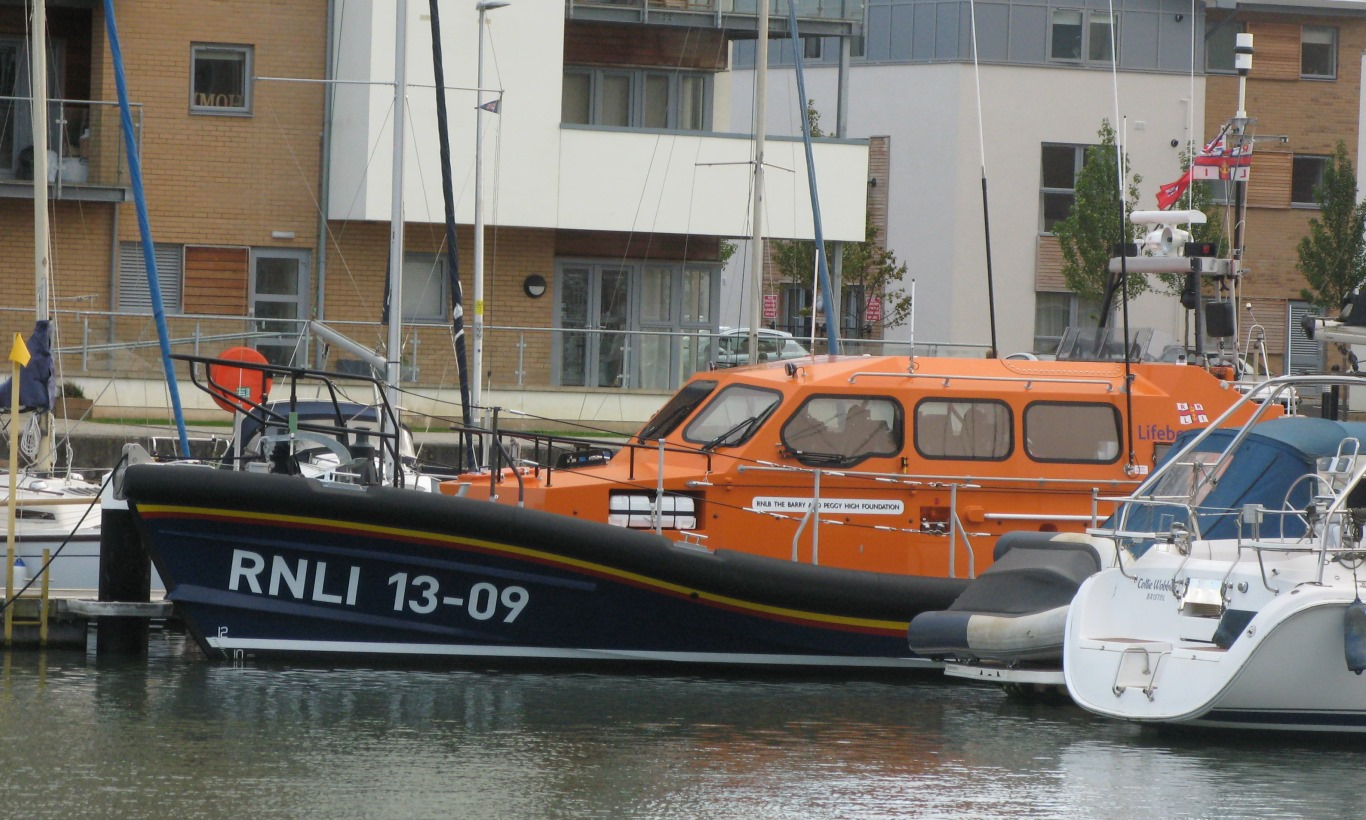 The Ilfracombe Lifeboat, Shannon Class 13-09 The Barry and Peggy High Foundation, at Portishead, a place used by local lifeboats for inspections and light repairs.